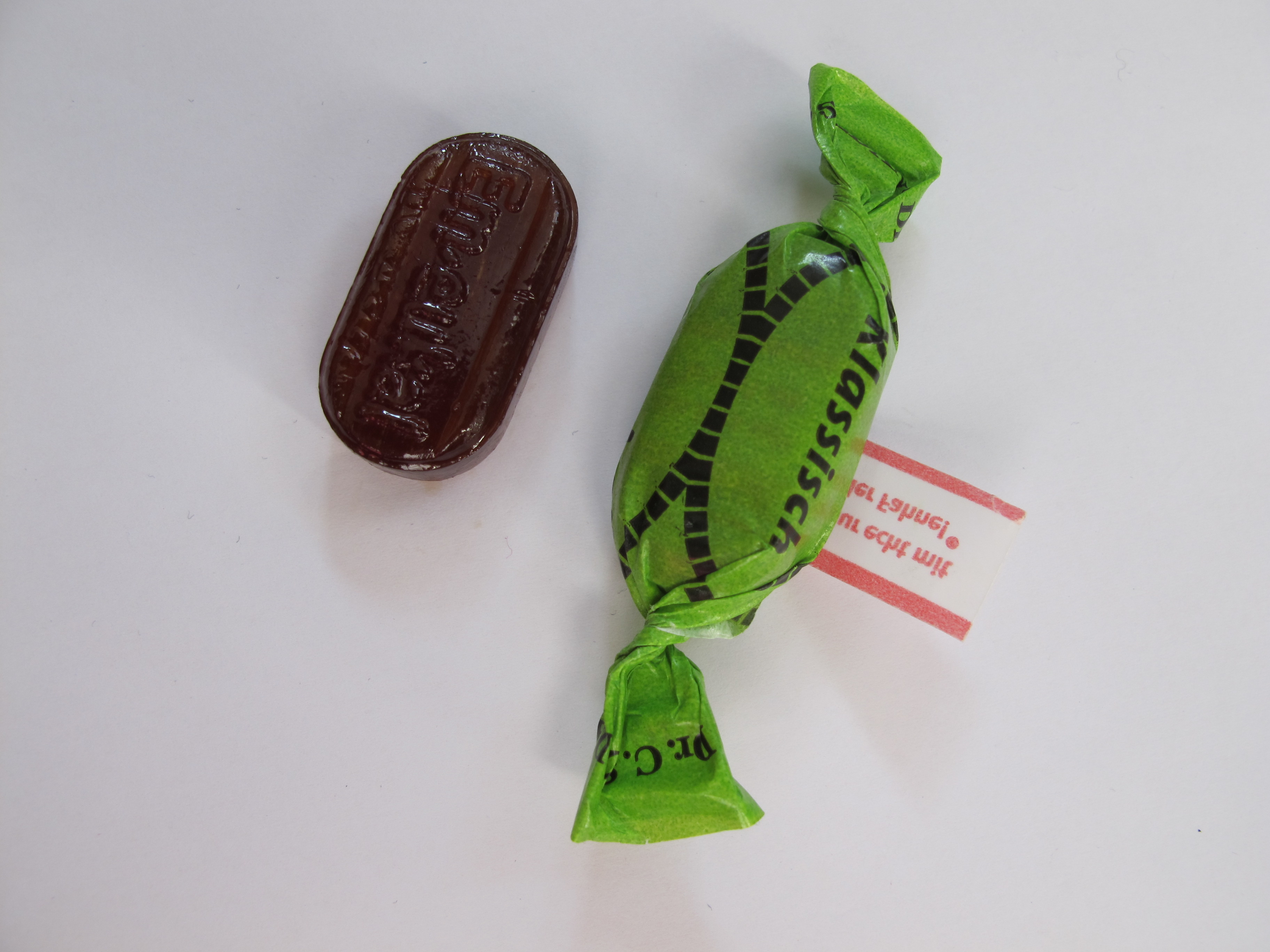 Em Eukal coughdrop with Eucalyptus